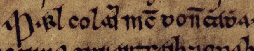 An excerpt from folio 19v of Oxford Bodleian Library MS Rawlinson B 488 (the Annals of Tigernach). The excerpt concerns Máel Coluim mac Donnchada, King of Alba (died 1093).